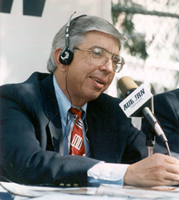 Jim Fyffe